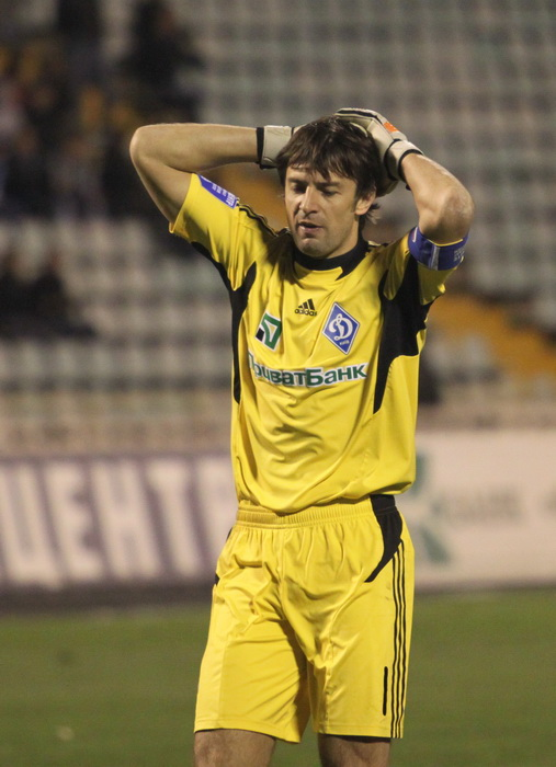 Oleksandr Volodymyrovych Shovkovskiy goalpakker Dyamo kiev